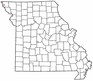 Modified from Image:MOMap-doton-Springfield.png